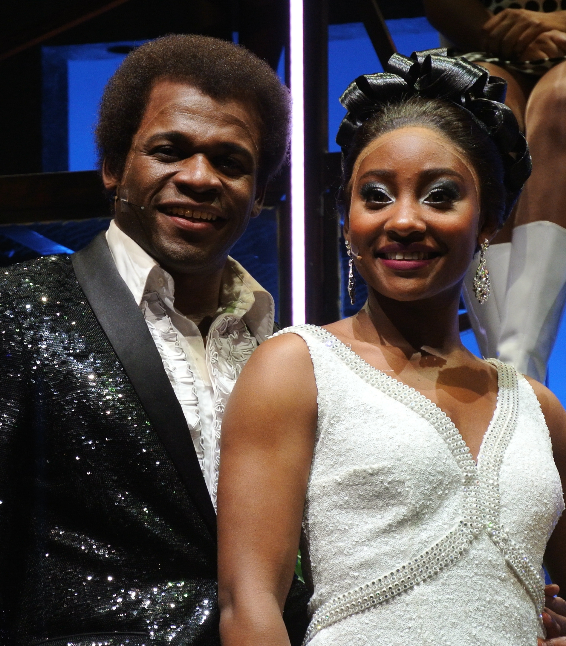 Part of the cast of the Dutch version of the musical Dreamgirls, picture taken after the show in the DeLaMar theatre in Amsterdam, on 1 May 2015. Showing Clayton Peroti as Jimmy Early, and Rubien Florens Vyent as Michelle